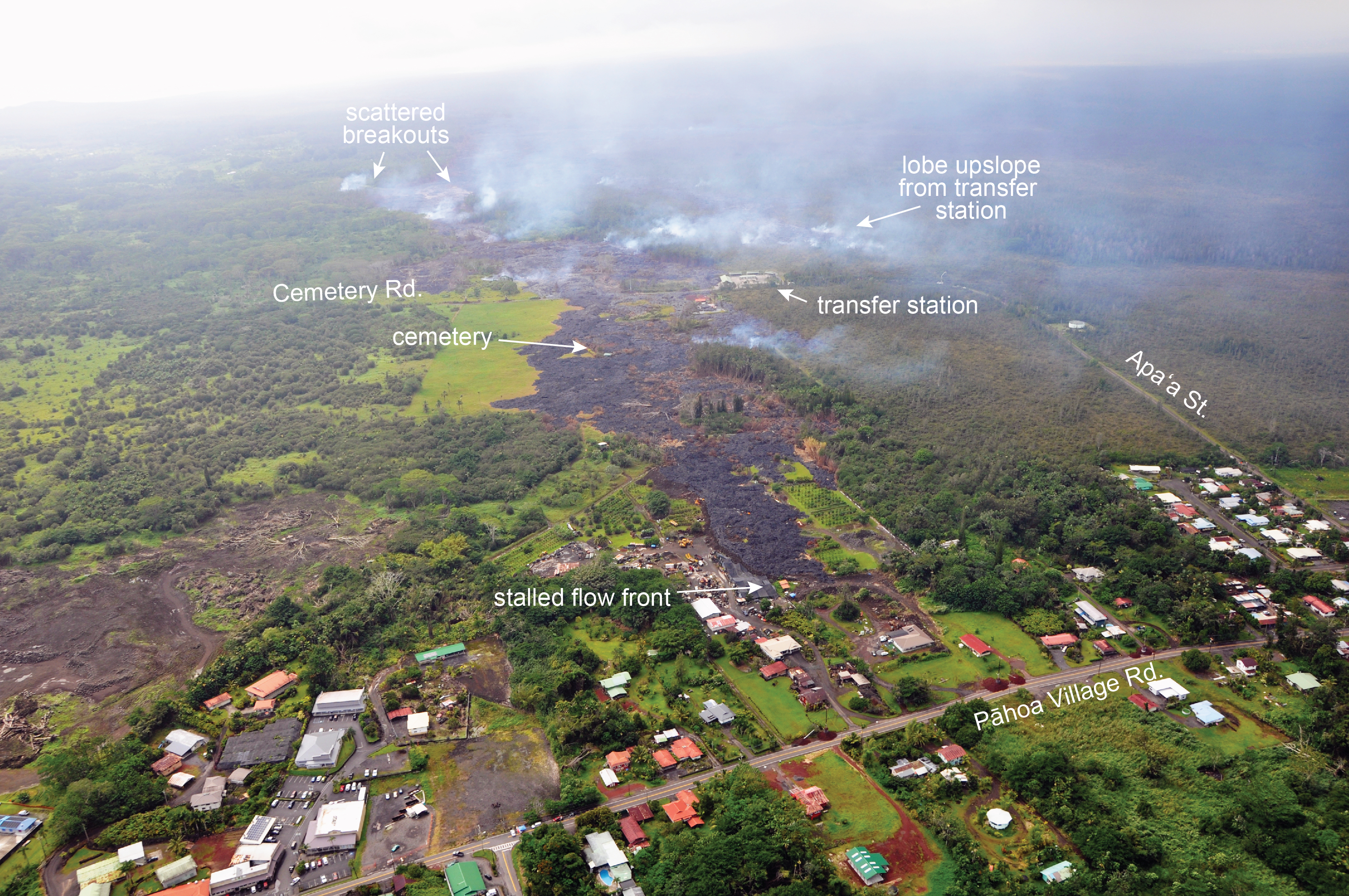 November 14, 2014 (Puʻu ʻŌʻō, Kīlauea): Breakouts remain active upslope of stalled flow front; The June 27th lava flow remains active, with scattered breakouts upslope of the stalled flow front. The closest active breakouts to Pāhoa Village Road were a short distance north of the cemetery, and approximately 700 meters (0.4 miles) upslope of Pāhoa Village Road. Most activity, however, was upslope of Apaʻa St./Cemetery Rd. A portion of this activity was focused along a lobe that was upslope of the transfer station, about 230 meters (250 yards) upslope of Apaʻa St. (